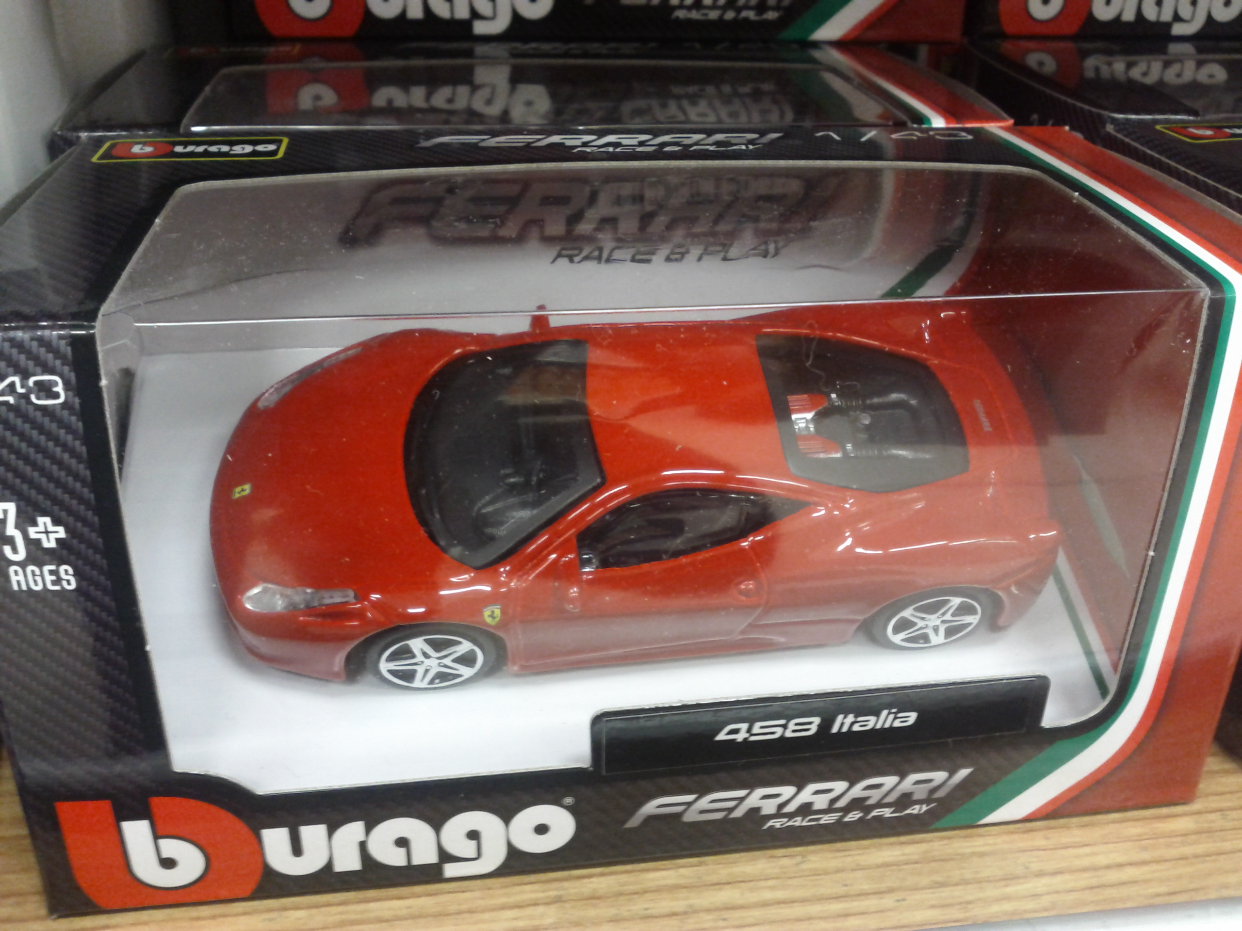 BBurago (brand of May Cheong Group) die cast model of a Ferrari 458 Italia. Made in China in 2014